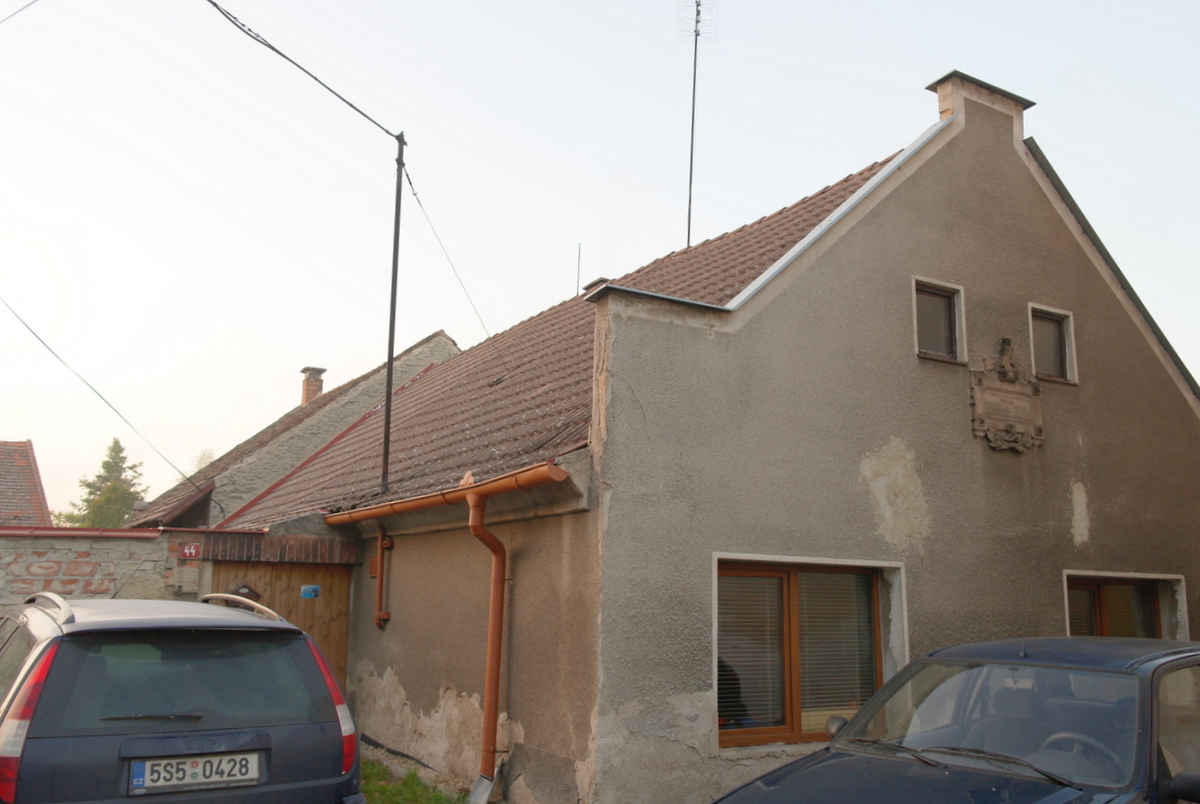 House on Pejšova str. 44, Zlonice, Kladno district. Native house of Valerian Pejša, a blacksmith worker and writer.